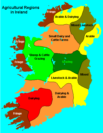 Agricultural map of Ireland from